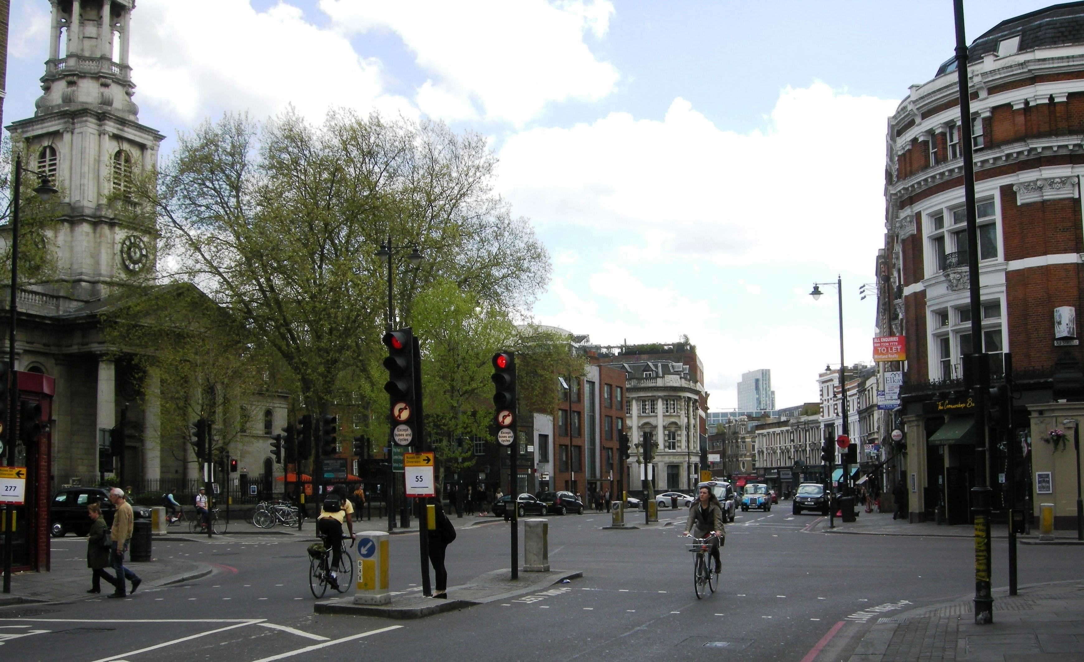 Northern end of Shoreditch High Street, viewed from Kingsland Road and looking south. St Leonard's Church is to the left of the picture.